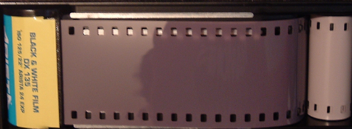 A digital picture of undeveloped Arista black and white film loaded into my Fujika STX-1 manual camera.